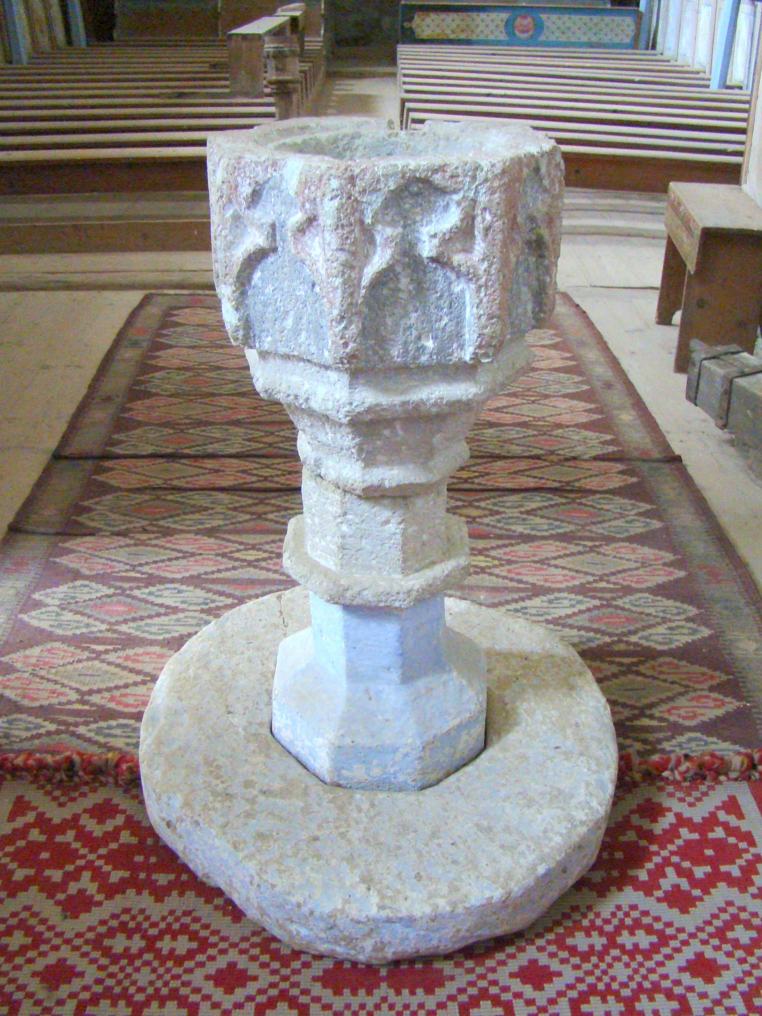 Fortified church in Roadeș, Brașov County, Romania